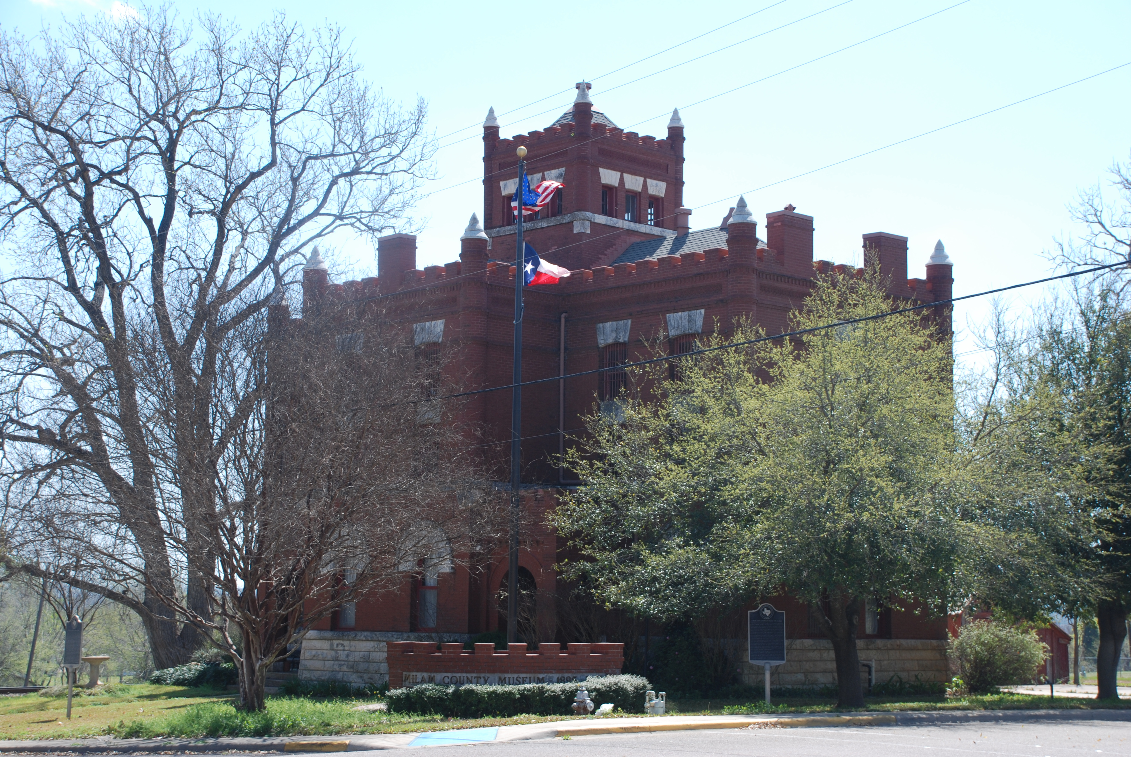 Milam County Museum (Cameron, Texas, USA)